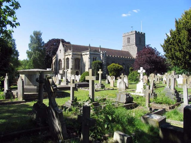 St Augustine, Broxbourne, Herts